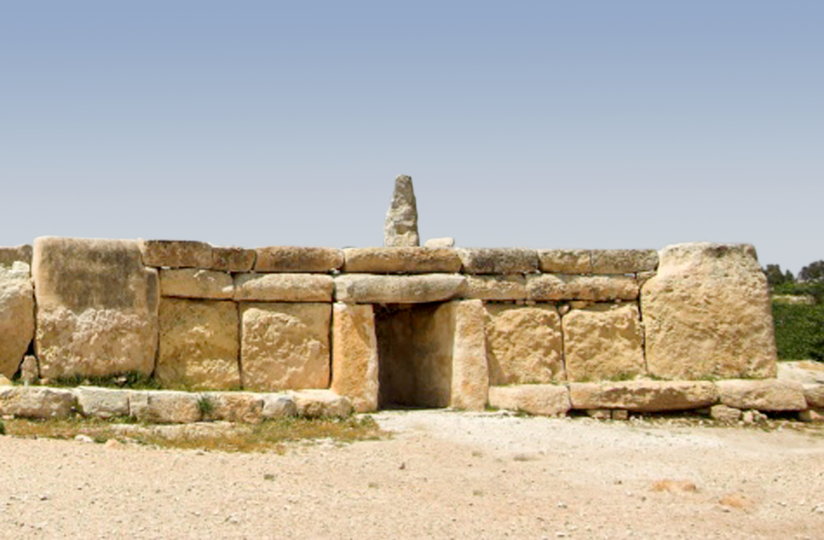 Facade du temple principal de Hagar Qim This media is about Maltese cultural property with inventory number 25.